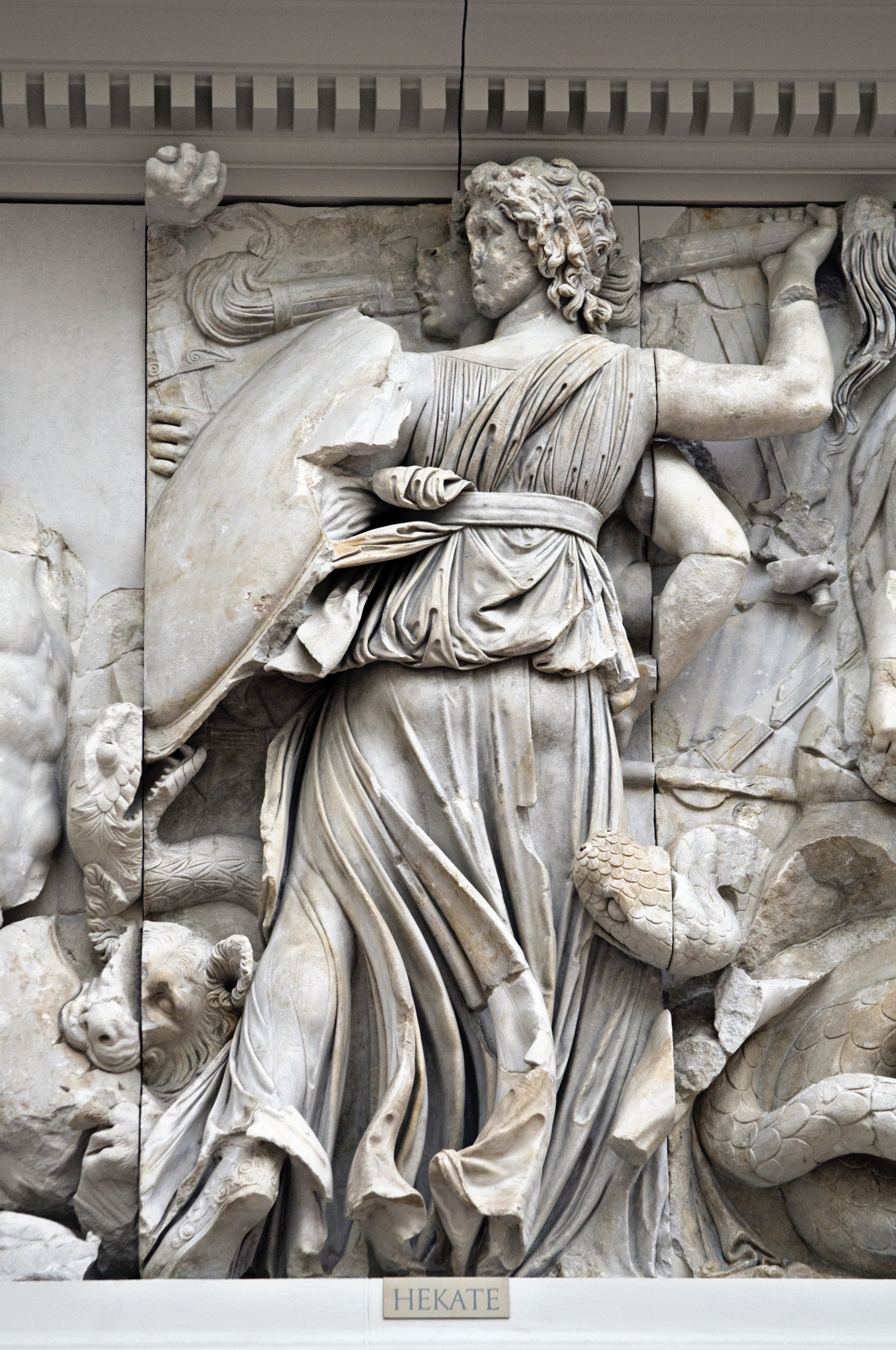 Pergamon Altar - Gigantomacy frieze - Hekate